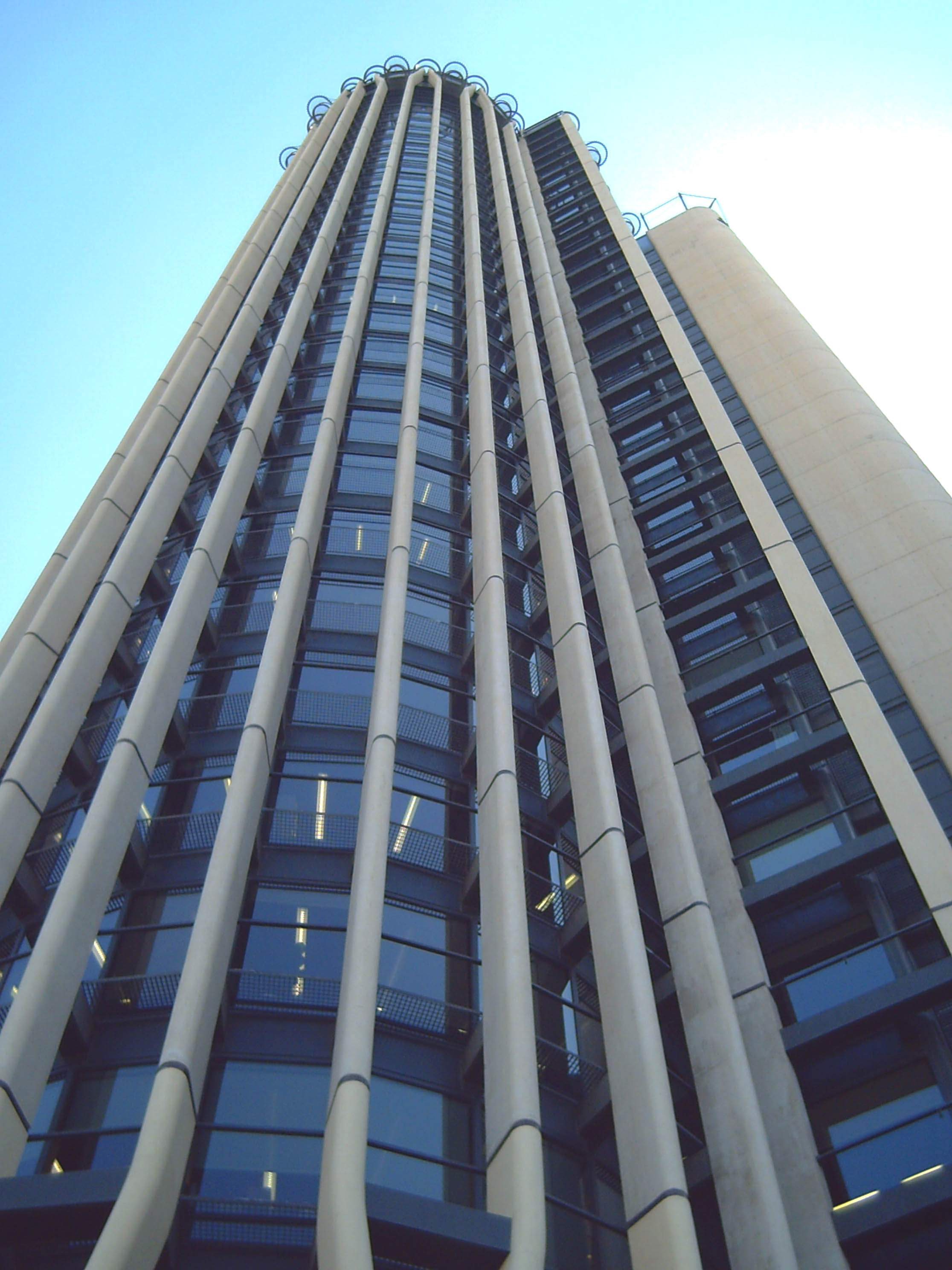 Torre Europa (Madrid, Spain, built in 1985). Architect: Miguel Oriol e Ybarra.